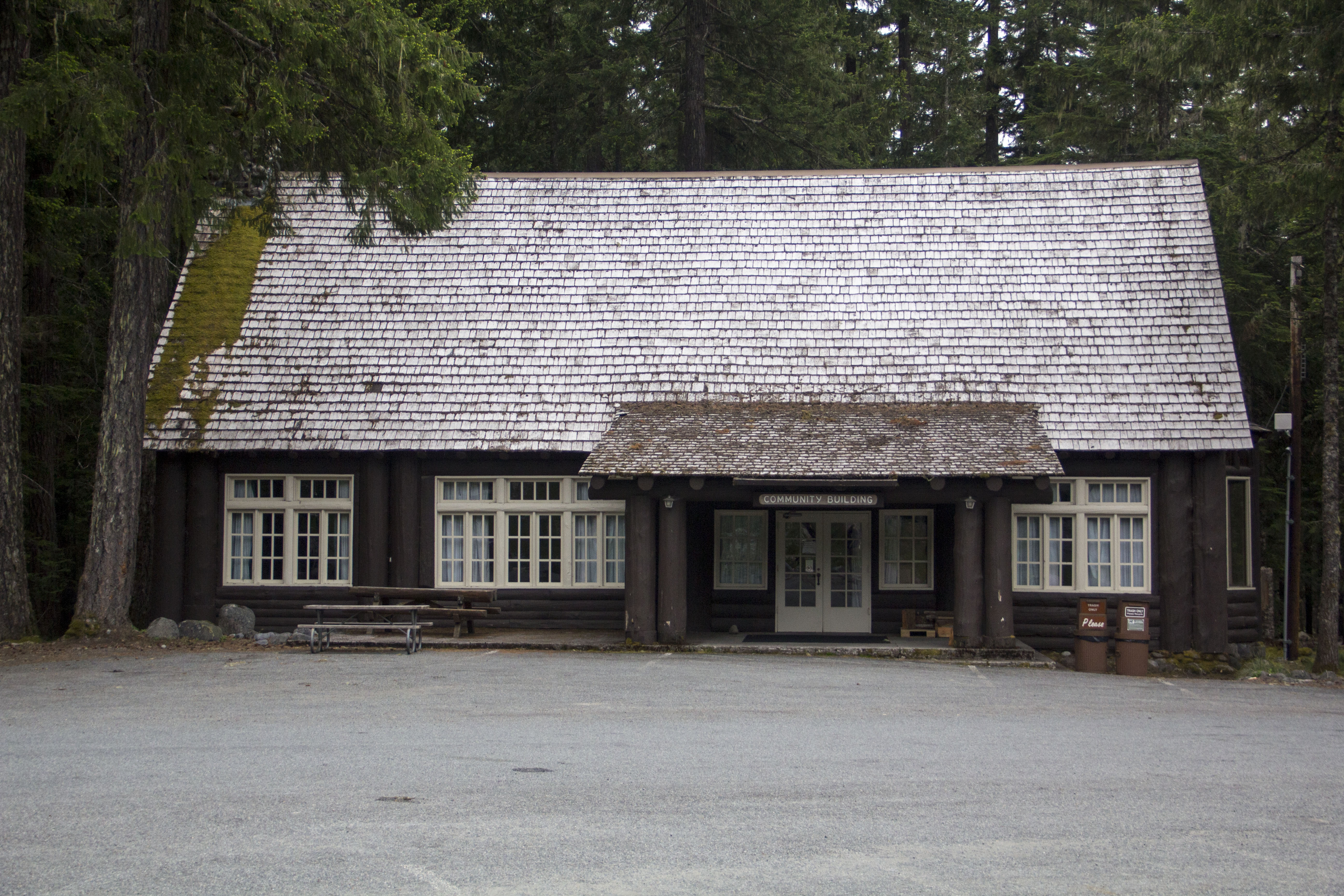 NPS photo by Emily Brouwer